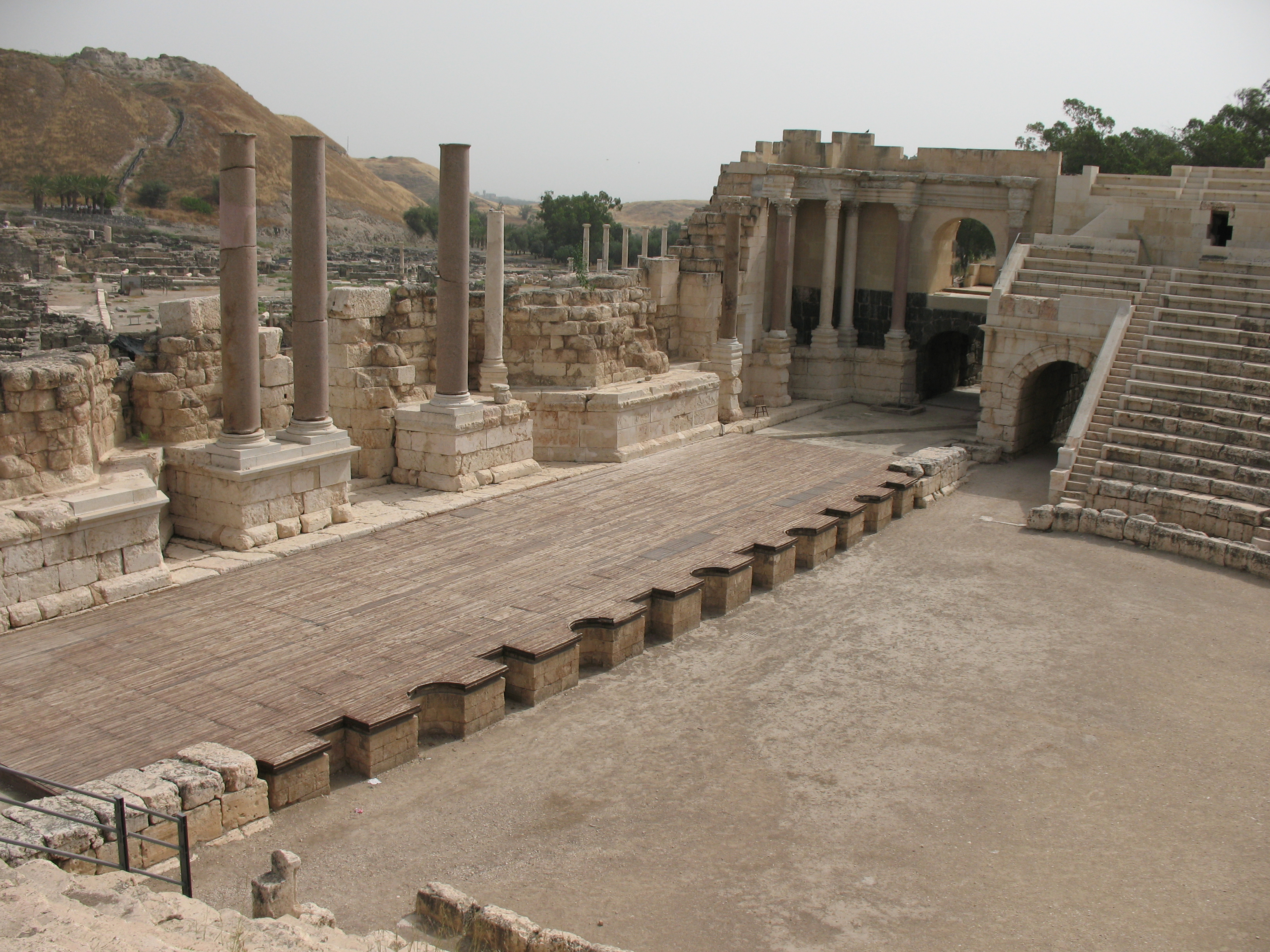 The Amphitheatre in Beit She'an